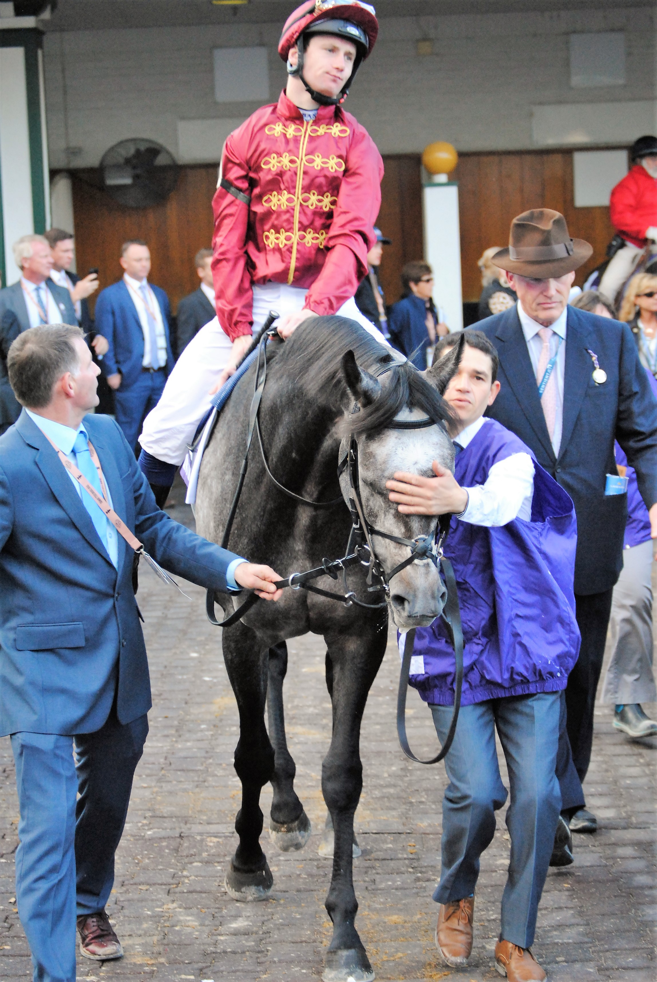 Roaring Lion and Oisin Murphy at the 2018 Breeders' Cup